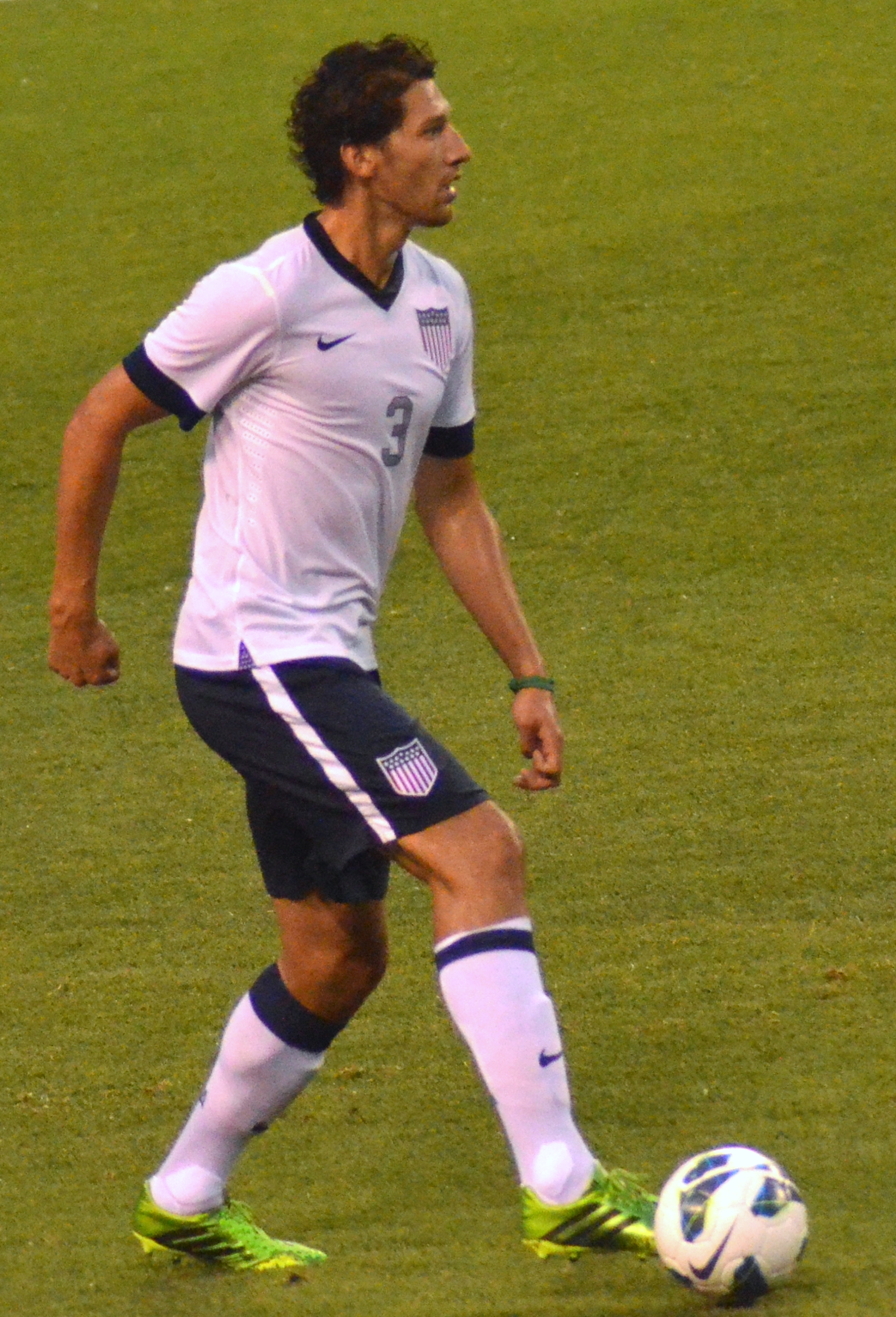 FirstEnergy Stadium Home of the Cleveland Browns